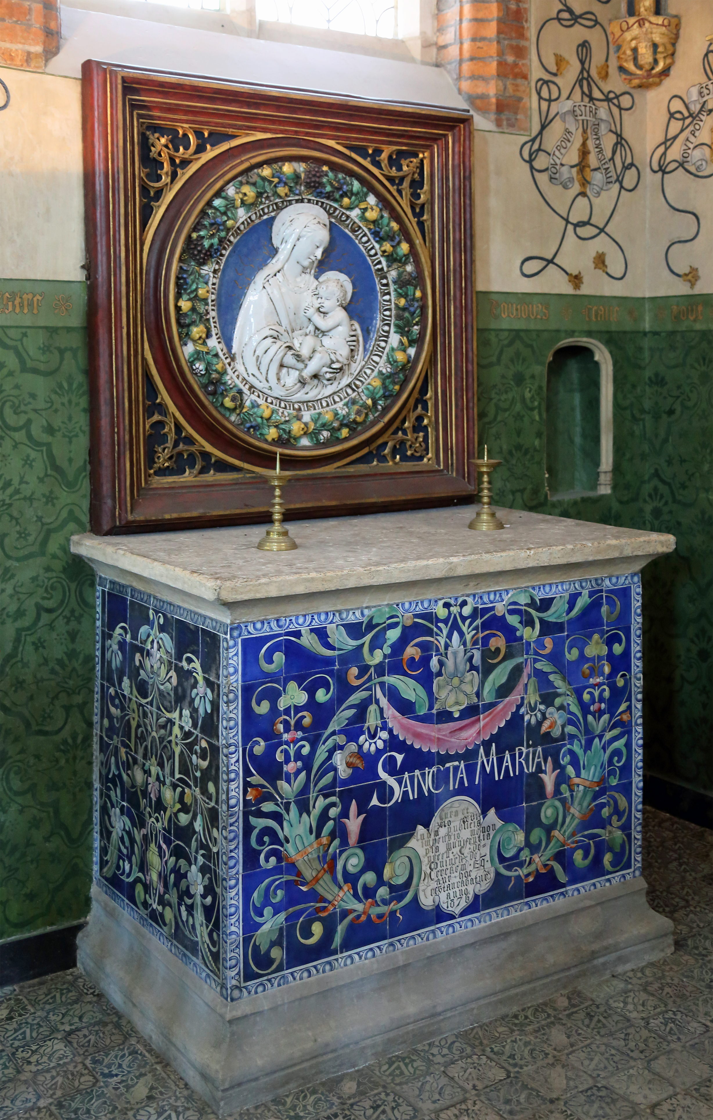 Bruges (Belgium), St James's church: funeral chapel of Ferry de Gros (died 1544) - altar of St Mary, with medallion attributed to Luca della Robbia